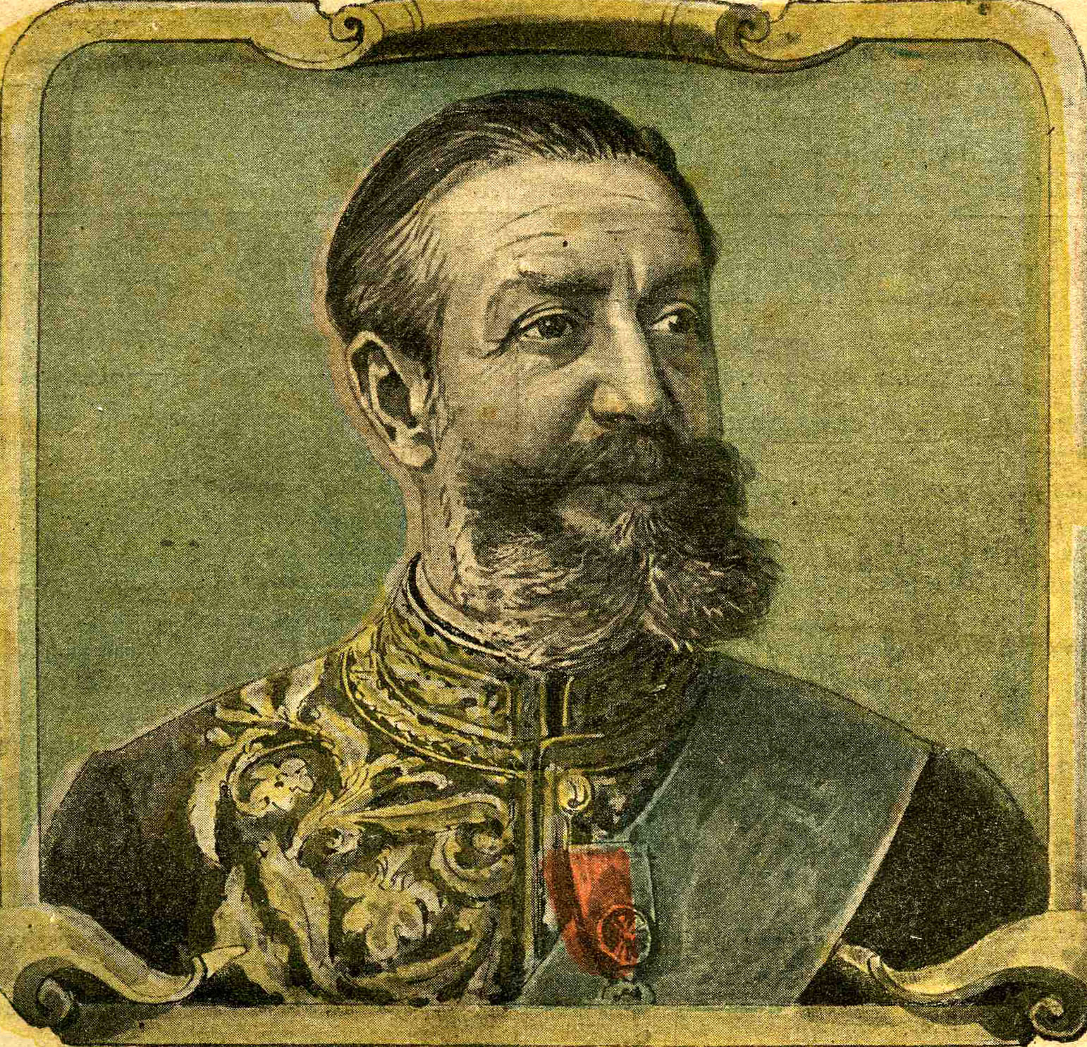 French diplomat Gustave Lannes de Montebello